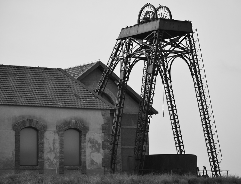 mines The Matildes.